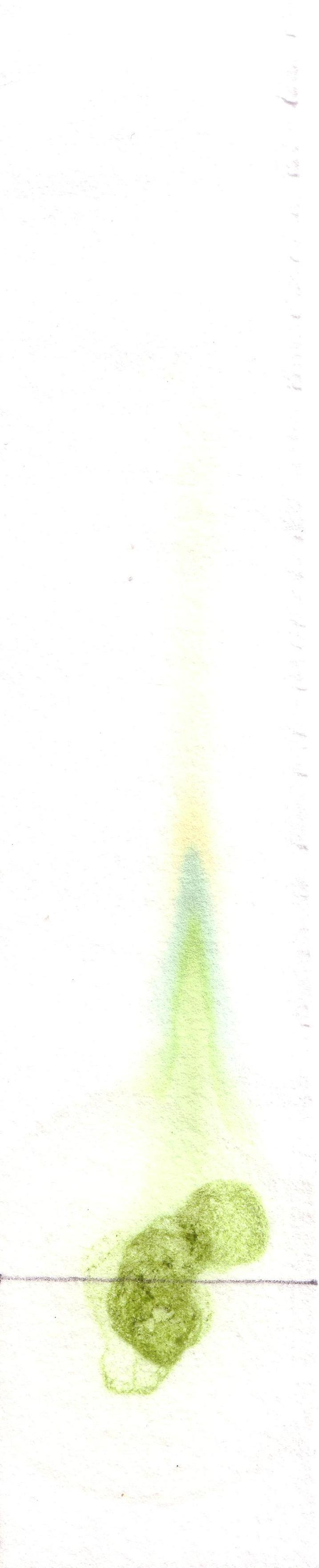 Example of paper chromatography of chlorophyll (extracted by spinach leaves) with organic solvent